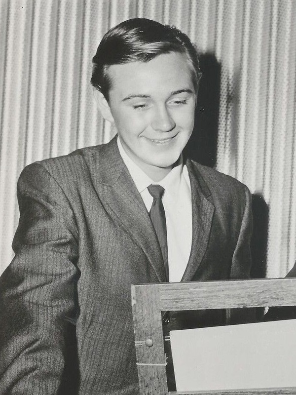 Tommy Kirk on the set of "The Snow Queen".